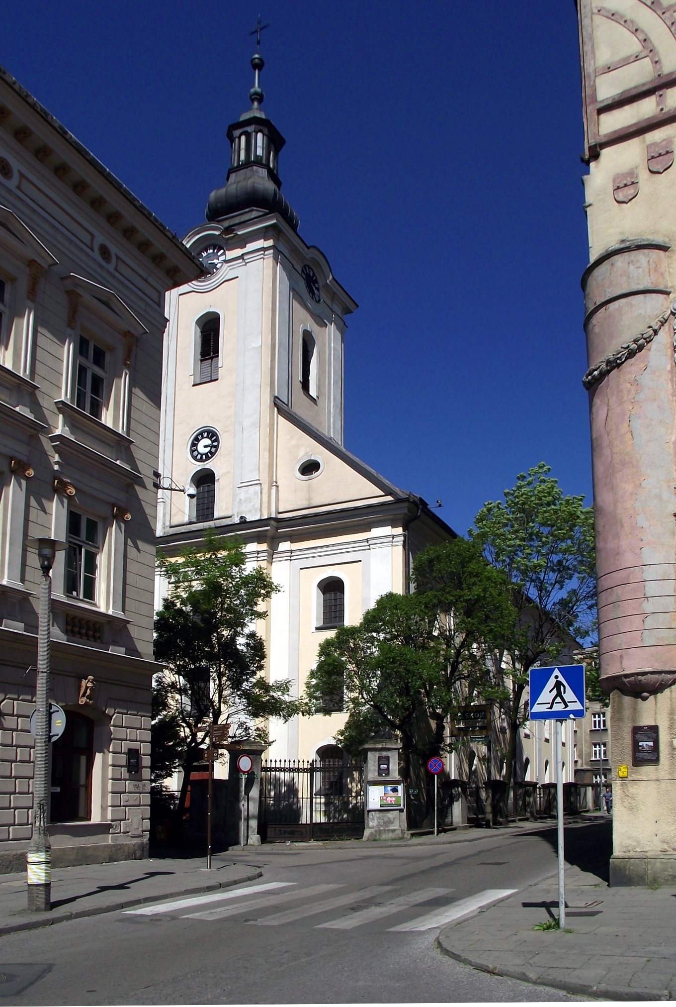 Evangelical church of Martrin Luther in Bielsko-Biała